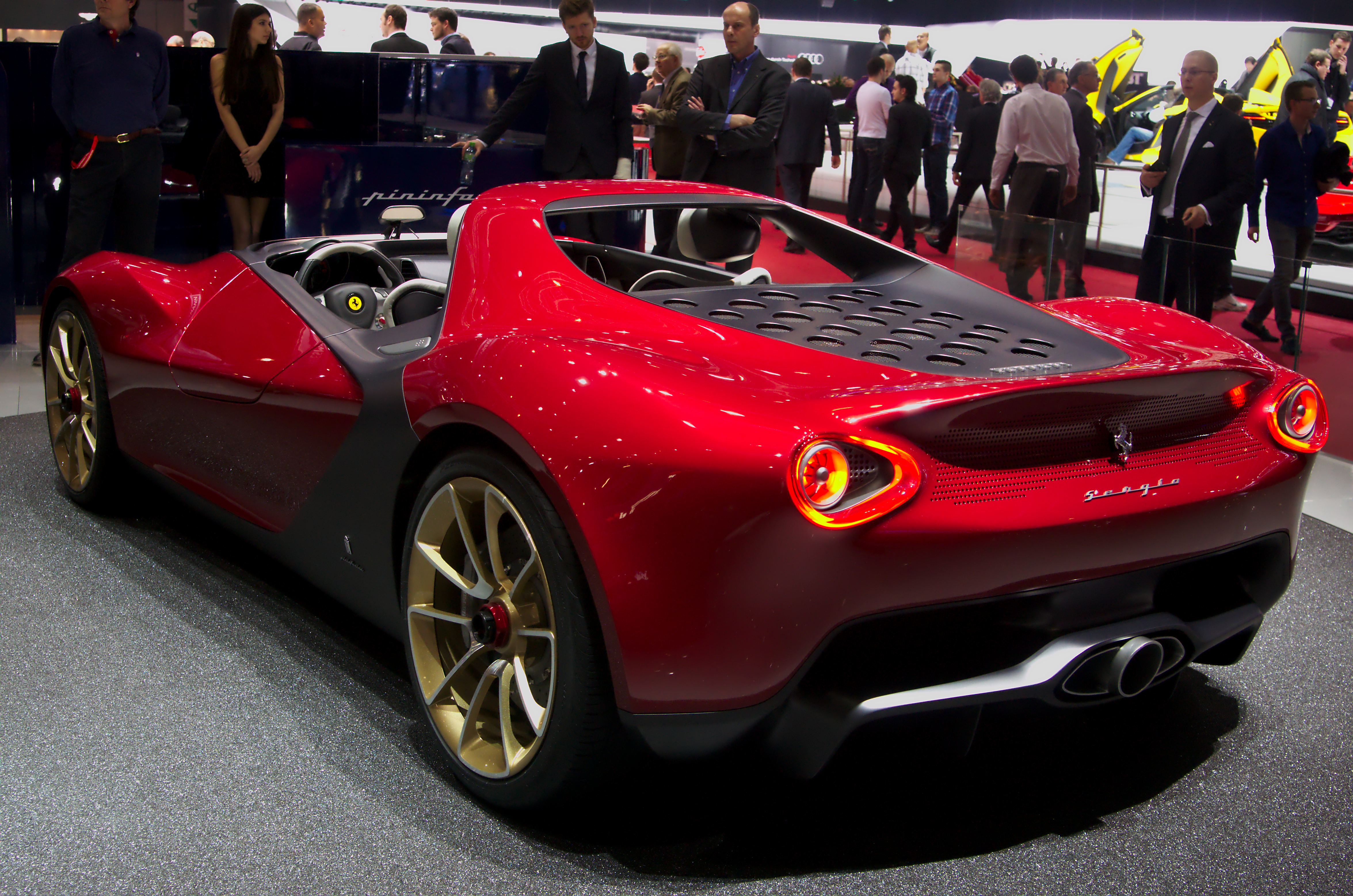 Geneva MotorShow 2013 - Pininfarina Sergio left rear view